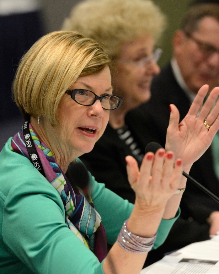 Chicago, IL - ASCO 2013 Annual Meeting: - Attendees during the Leadership Development Program Orientation Session at the American Society for Clinical Oncology (ASCO) Annual Meeting here today, Friday May 31, 2013. Over 30,000 physicians, researchers and healthcare professionals from over 100 countries are attending the meeting which is being held at the McCormick Convention center and features the latest cancer research in the areas of basic and clinical science. Photo by © ASCO/Phil McCarten 2013 Technical Questions: ; ASCO